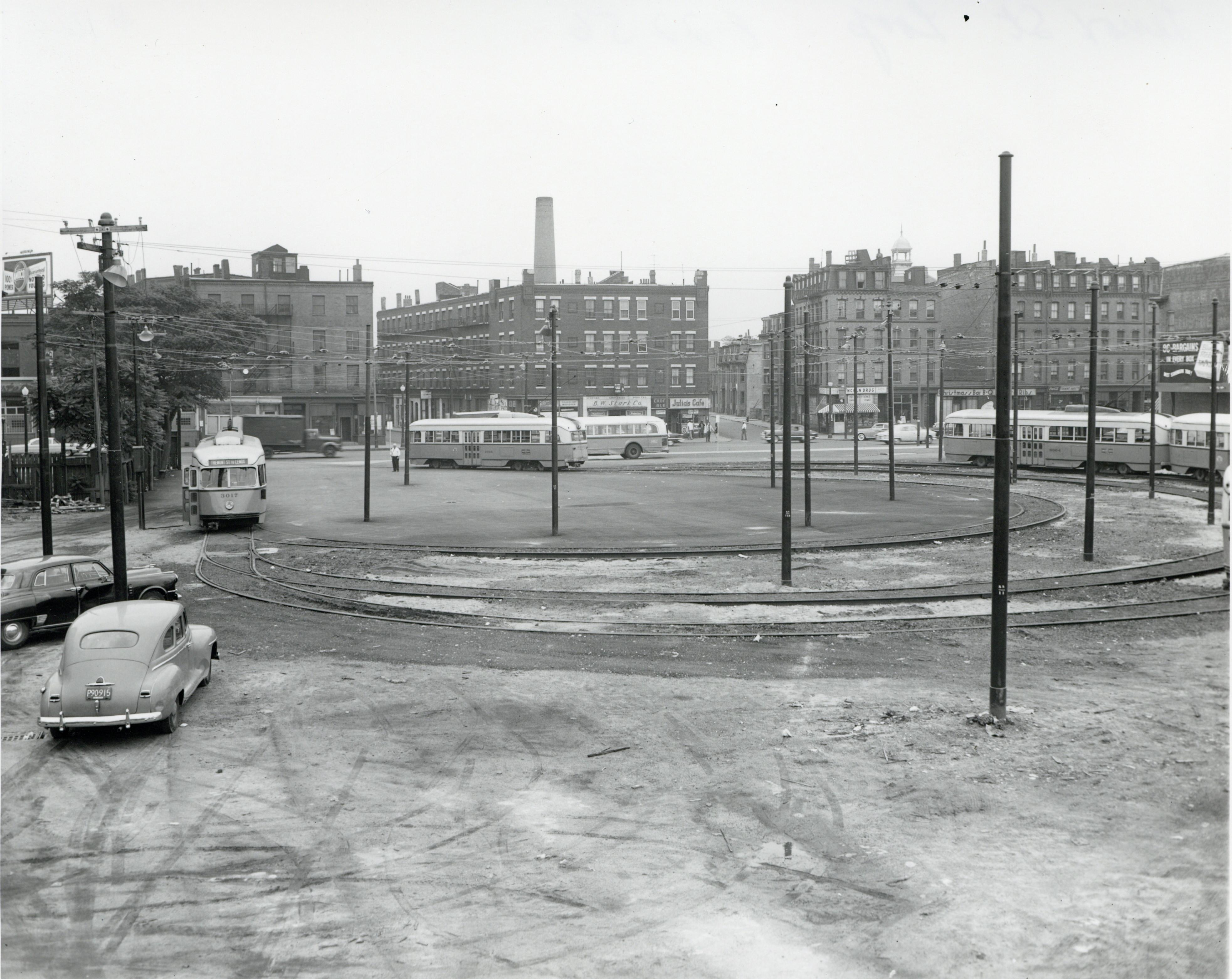 MTA streetcars and buses at the Lenox Street loop in August 1956